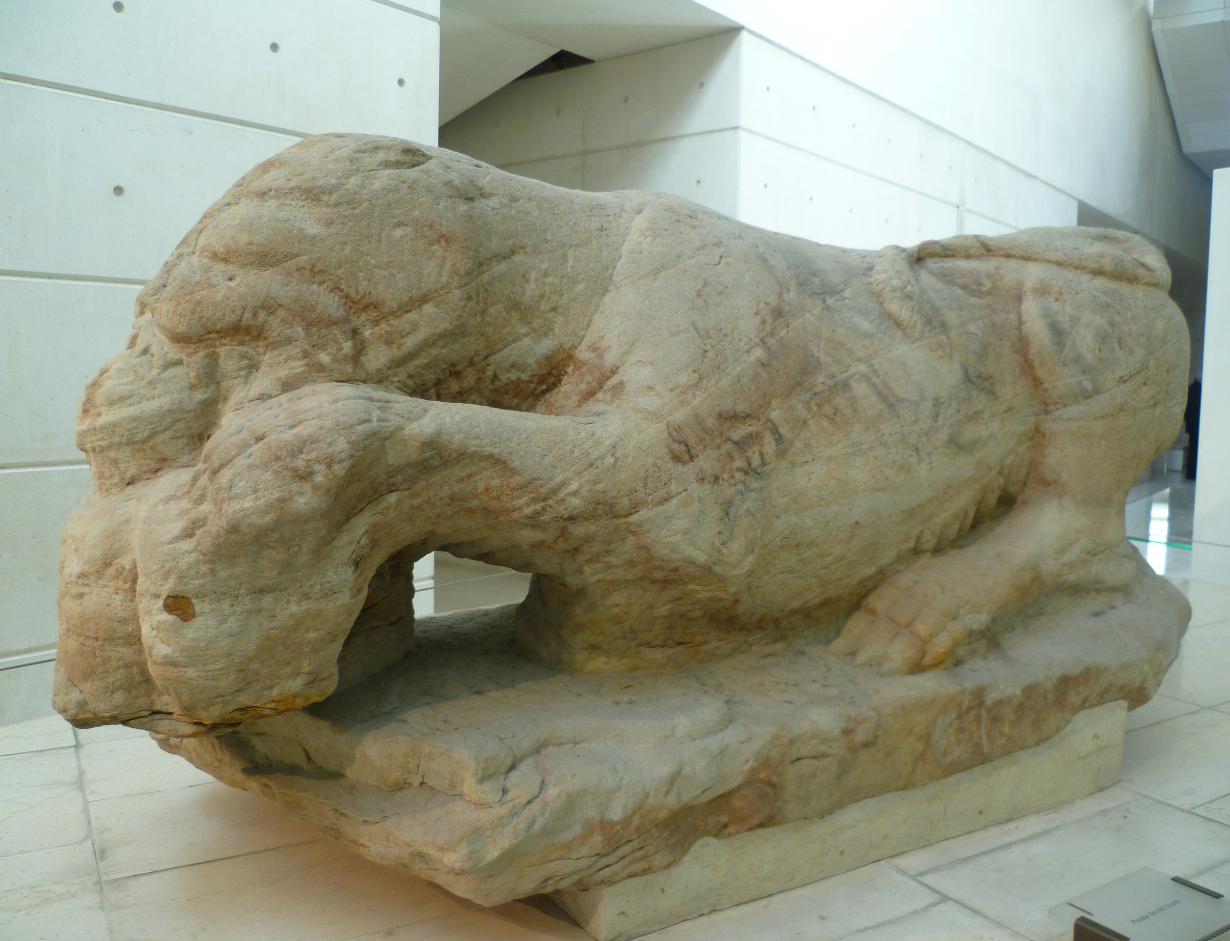 An exhibit in the National Museum of Scotland, Chambers Street. The statue was found in the mud of the River Almond by ferryman Robert Graham in 1997, close to the site of a Roman fort, established around 140 AD. Graham received a £50,000 reward for recovering one of the most important Roman finds in Scotland. It took two years under controlled conditions before it was dried out and could be displayed.